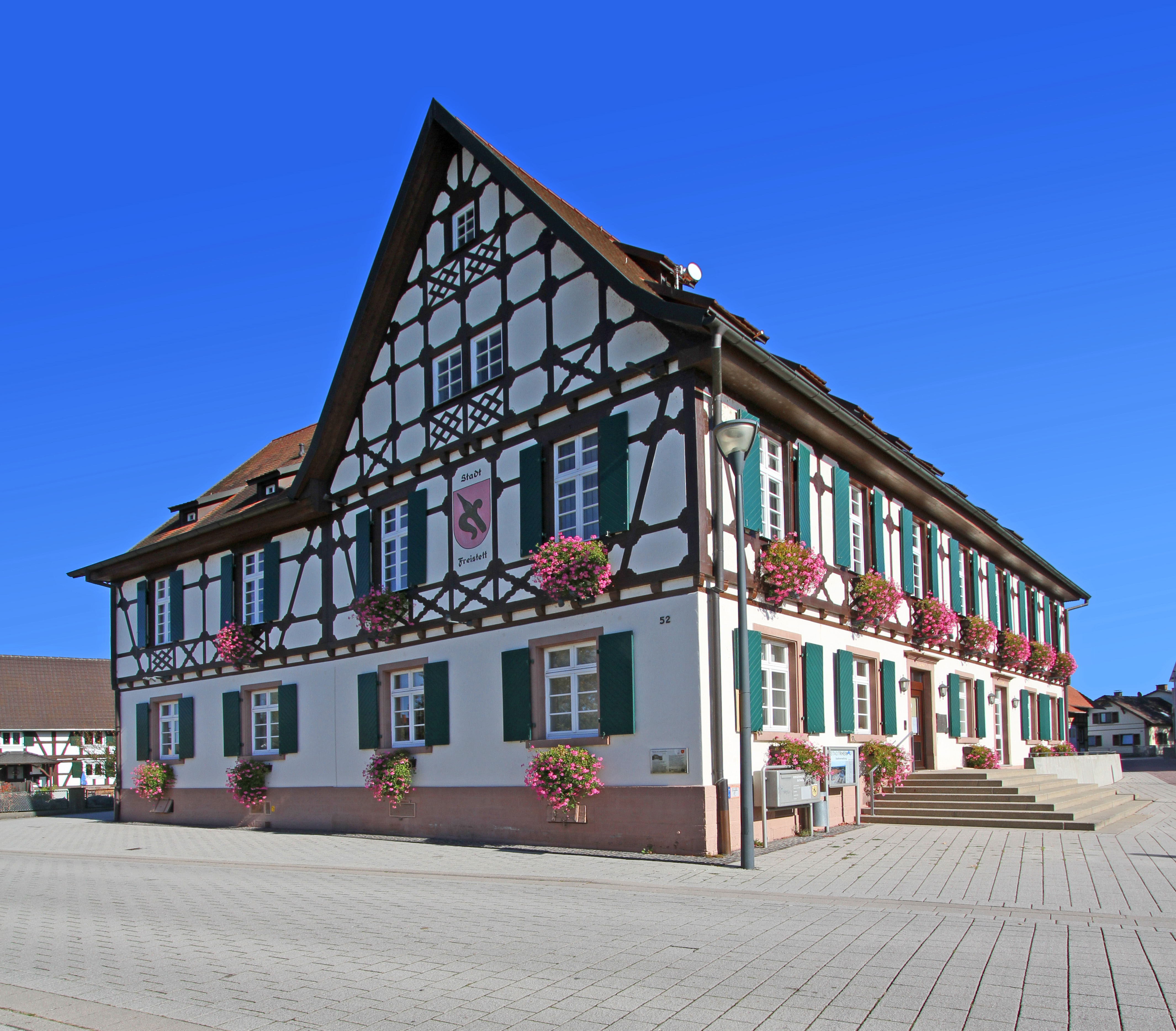 Town hall of Rheinau (Baden) in Freistett.